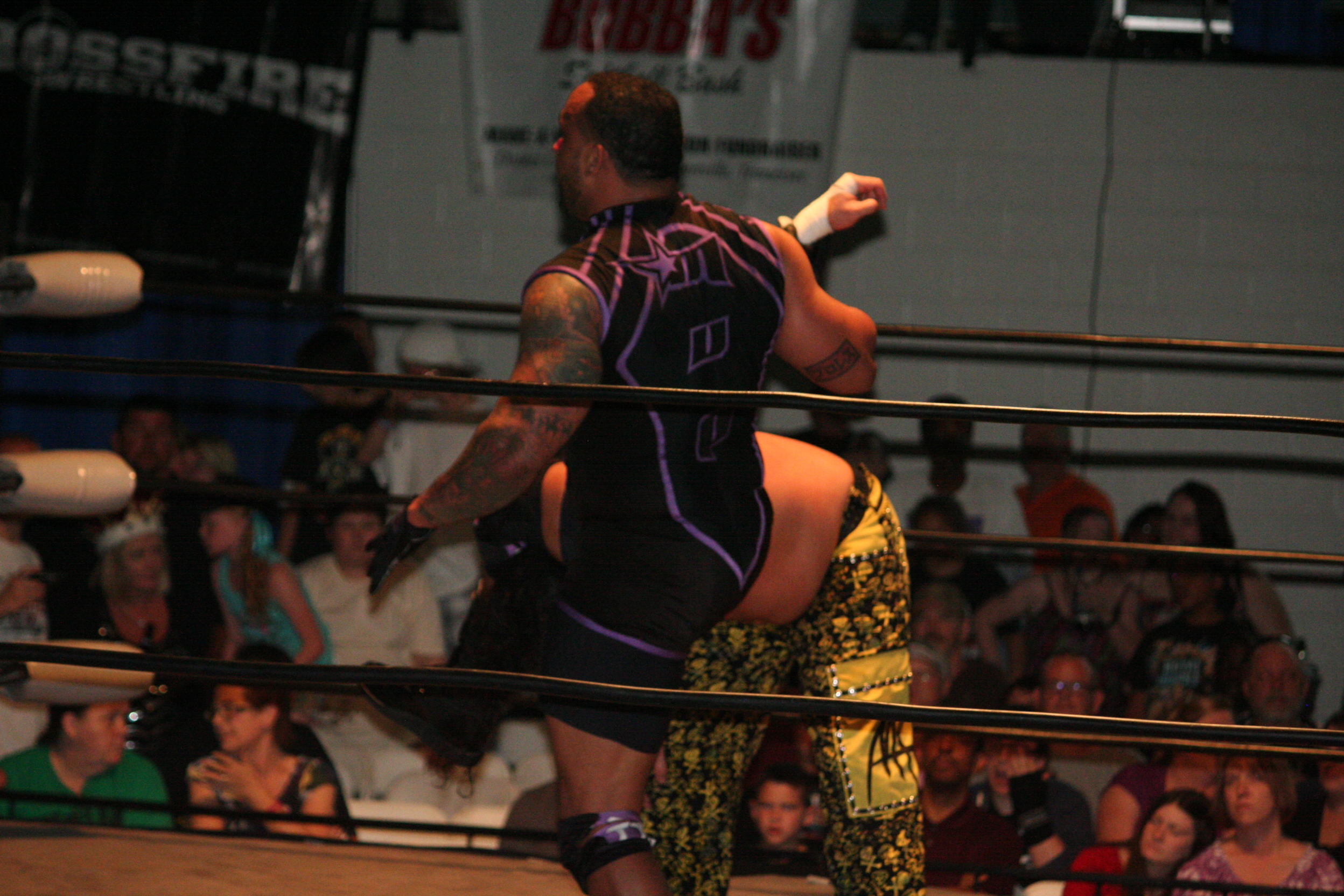 Professional wrestler MVP performing a "Playmaker" on Matt Hardy.